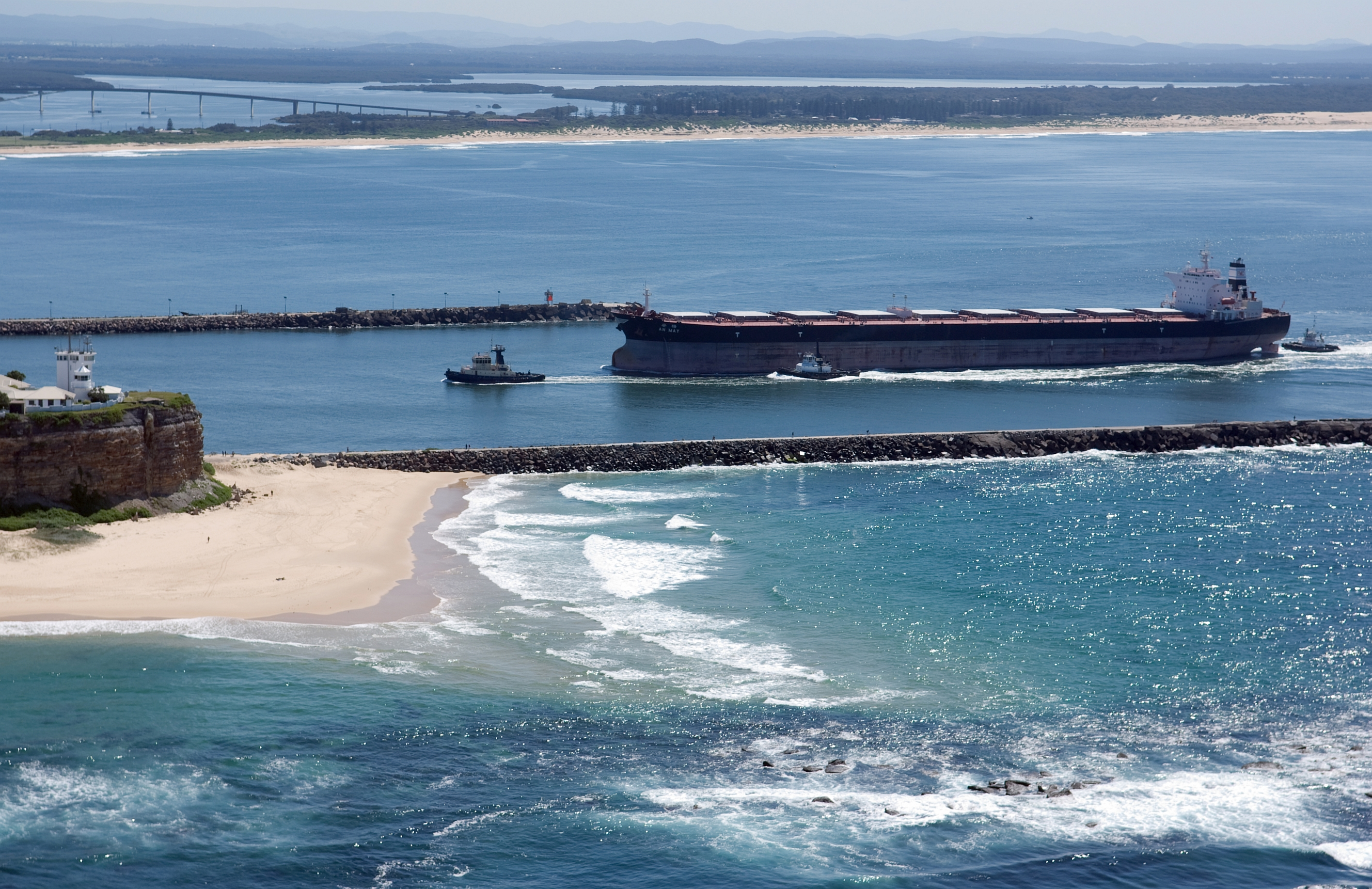 Newcastle is one of the world's largest coal export ports. Coal represents 90% of cargo tonnage. Other bulk cargoes include grains, vegetable oils, alumina, fertiliser and ore concentrates.